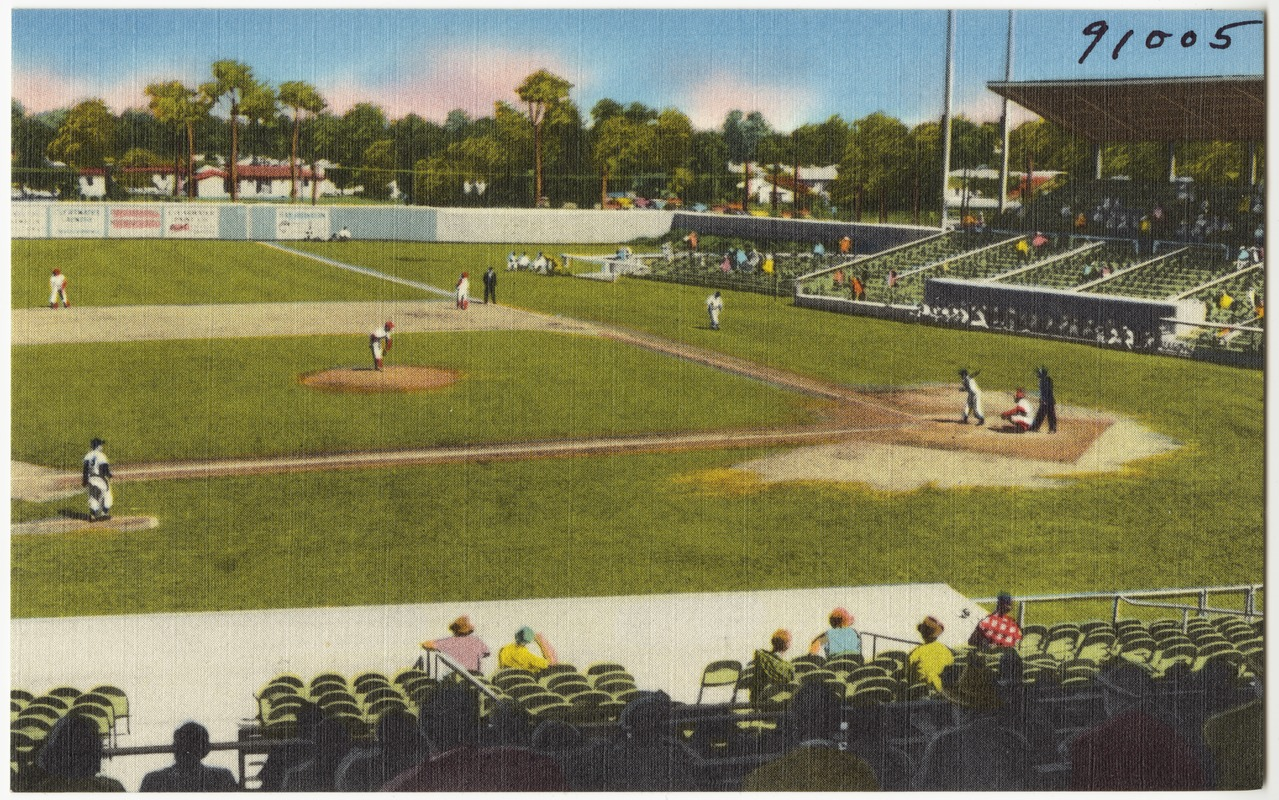 "Clearwater Stadium, Clearwater, Florida, On the Gulf of Mexico" produced by Tichnor Brothers Inc, Boston, MA in 1950s. Jack Russell Stadium opened in March 1955 and was the spring training home of the Philadelphia Phillies through 2003.